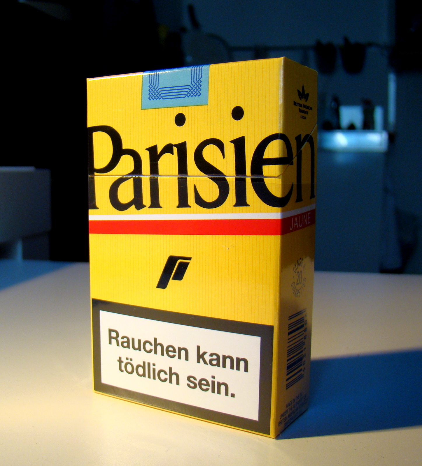 Picture of a package of Parisiene Jaune Ciagarretes